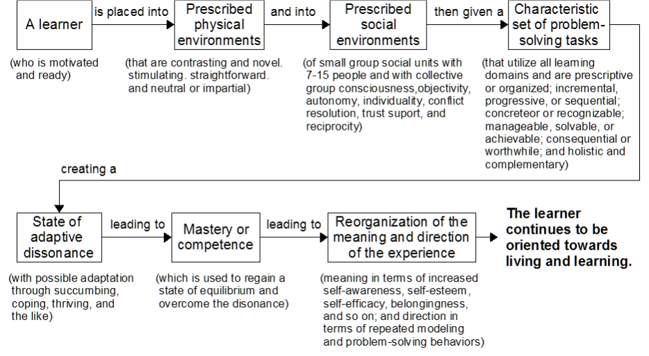 The Outward Bound Process Model adapted from Walsh and Golins (1976). Walsh, V., & Golins, G. L. (1976). The exploration of the Outward Bound process. Unpublished manuscript, Colorado Outward Bound School, Denver, CO.